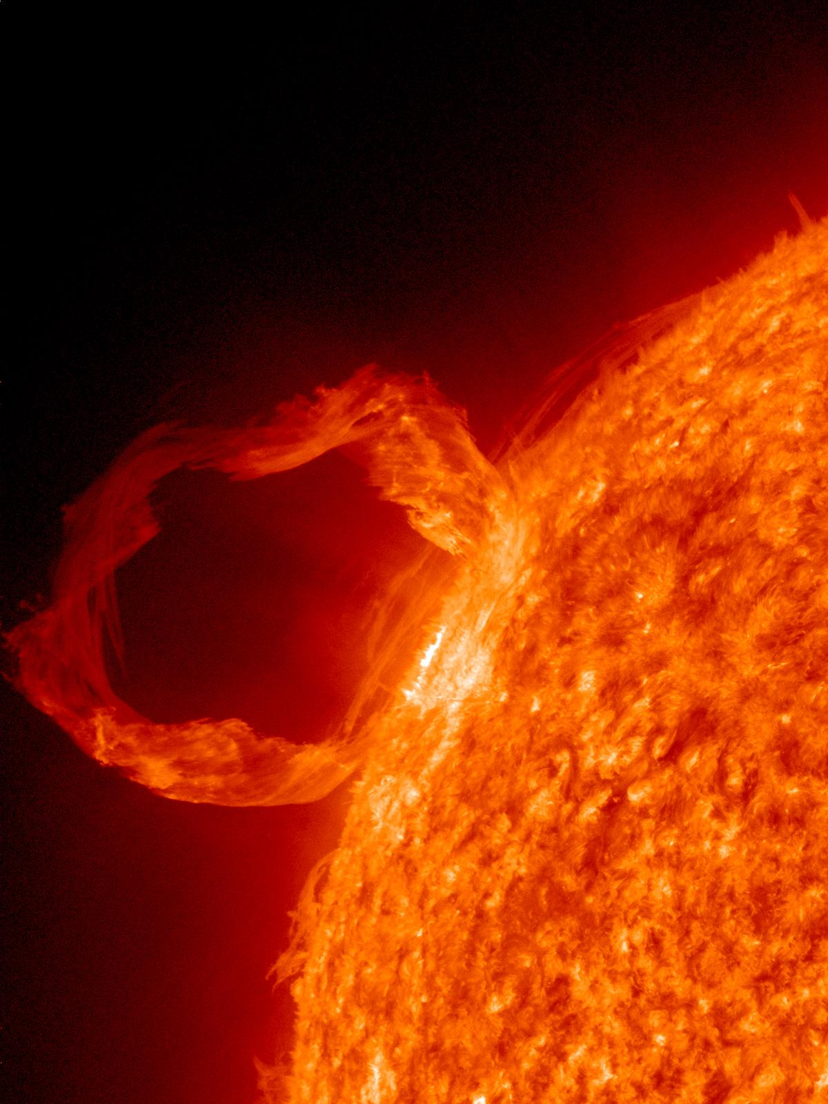 View of a solar flare.